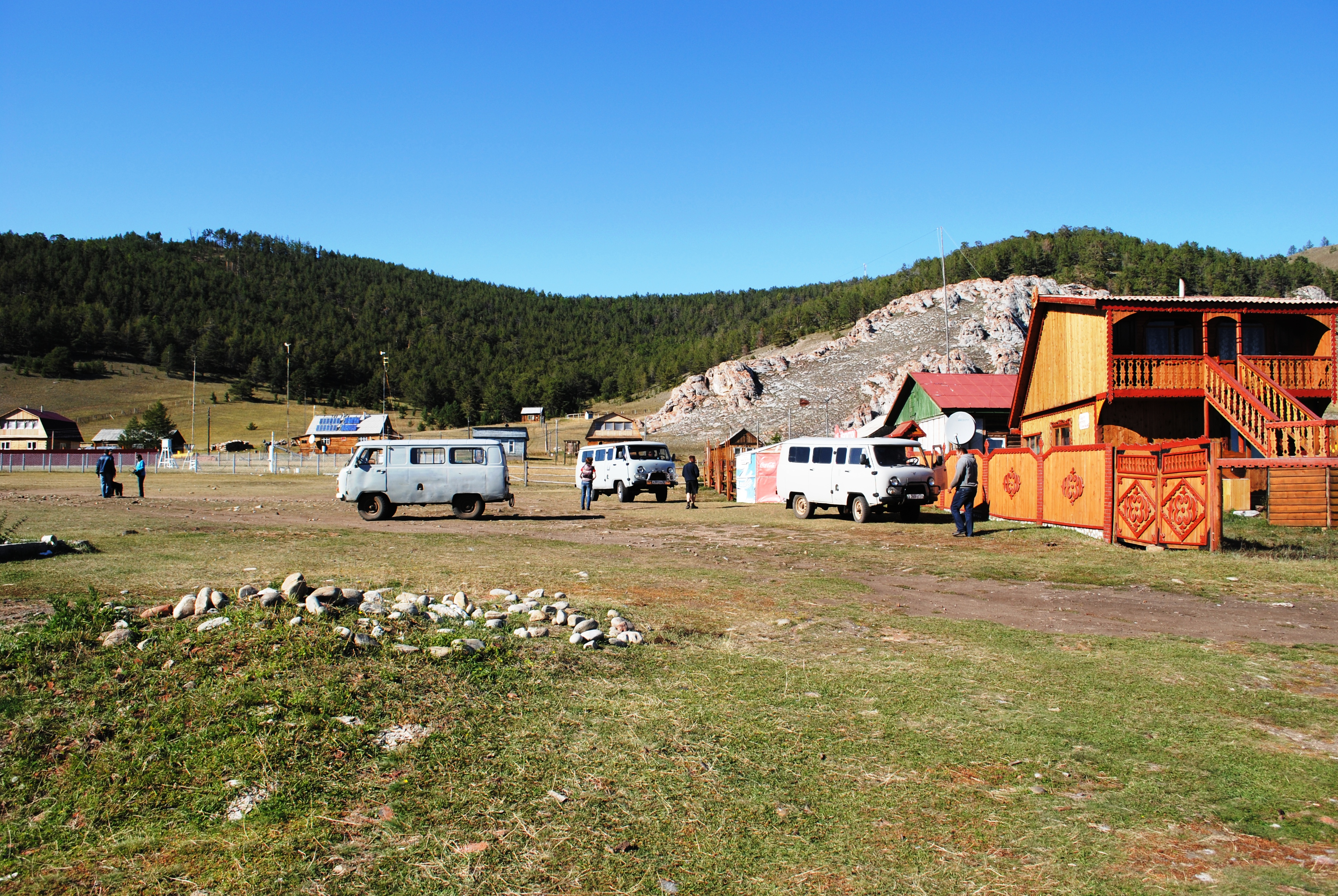 Olkhon